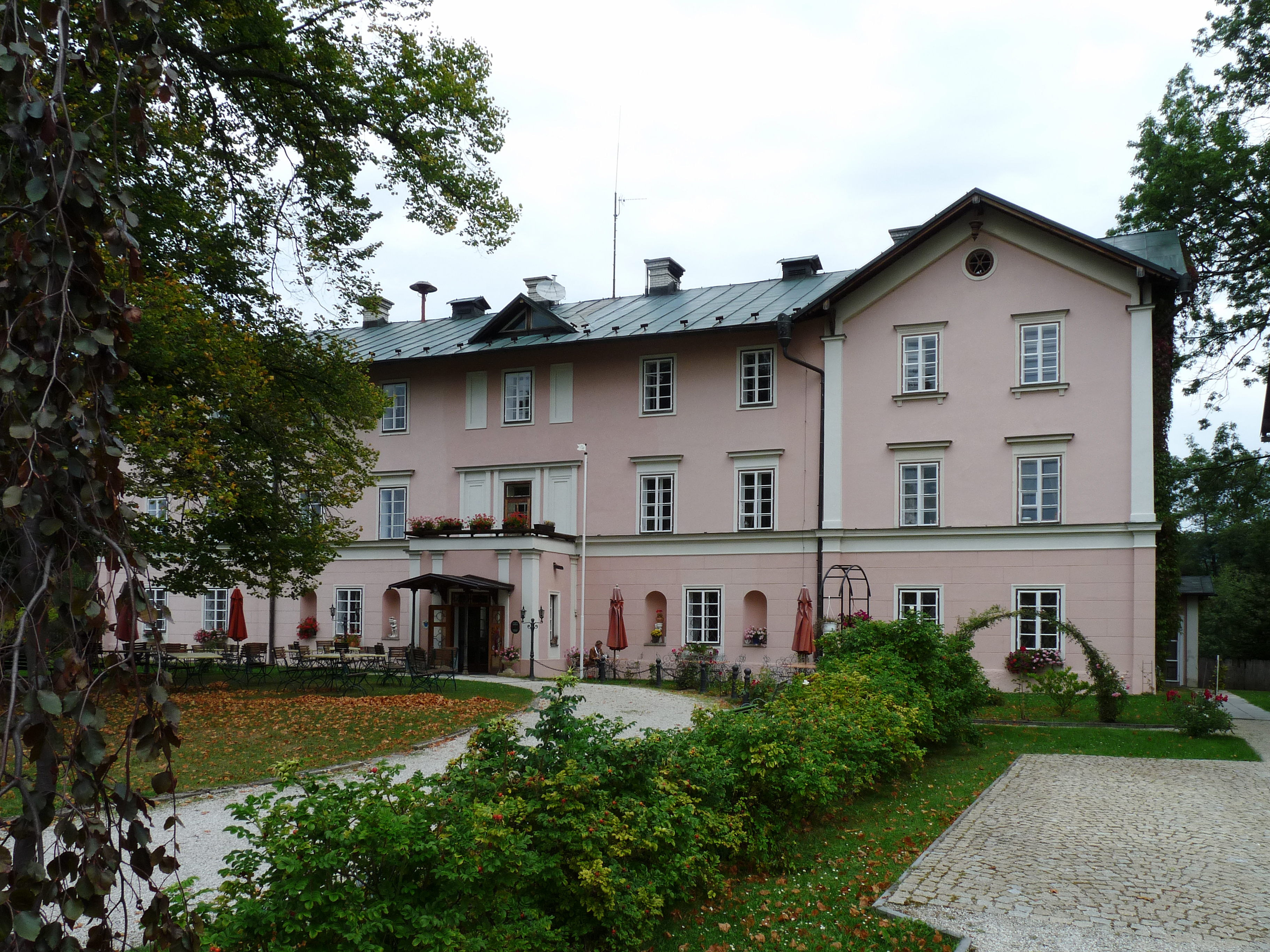 Château in the village and municipality of Zdíkov in Prachatice District, Czech Republic.